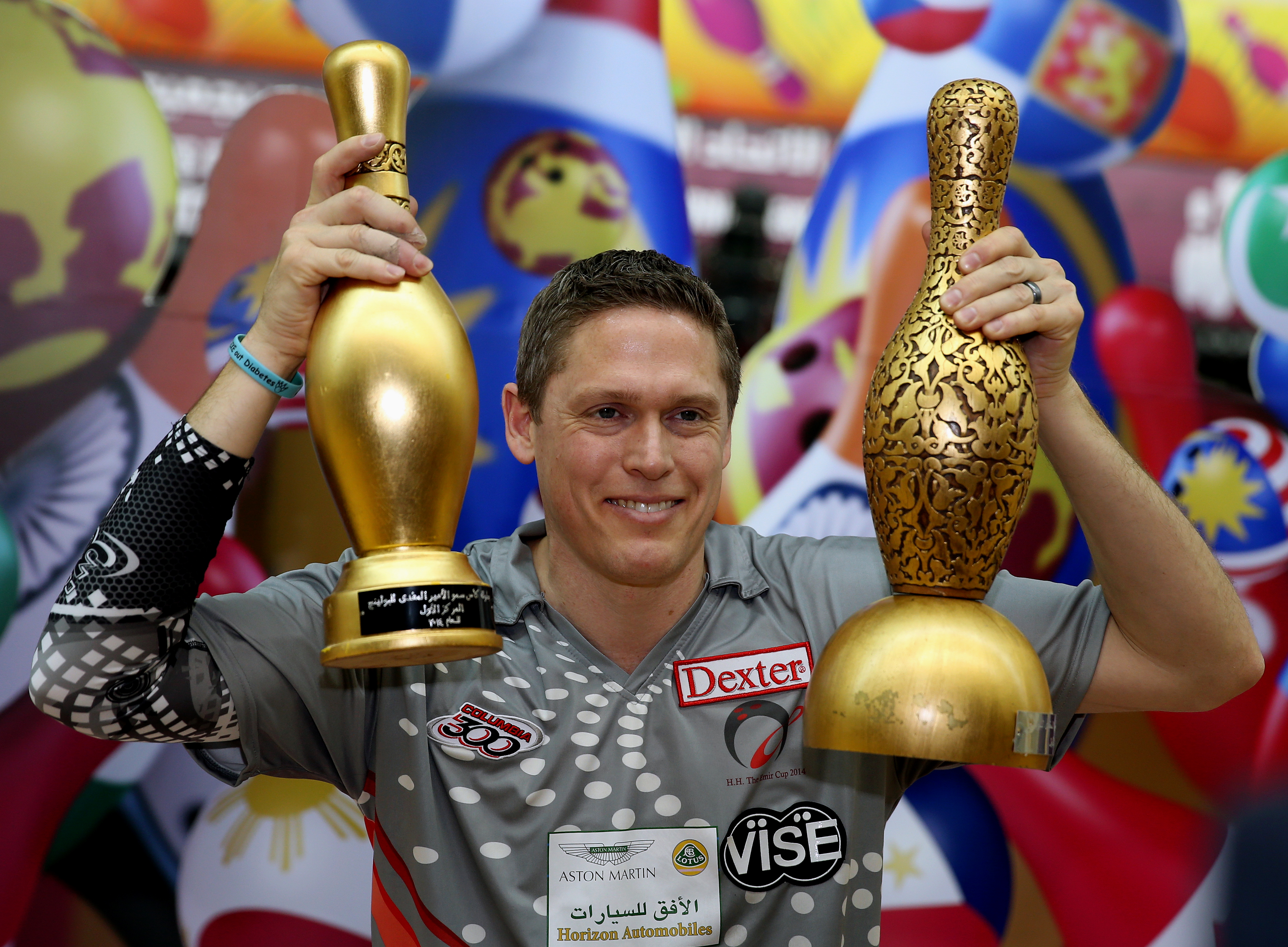 American bowler Chris Barnes is all joy after winning the Emir's Cup title in Doha.